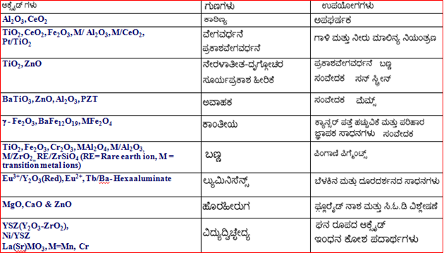 Uses of nanooxide materials prepared from solution combustion synthesis